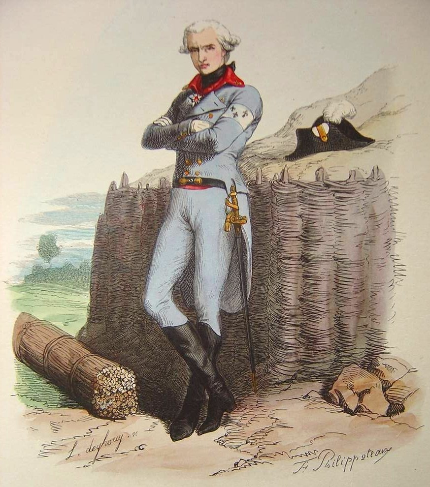 Infanterie noble